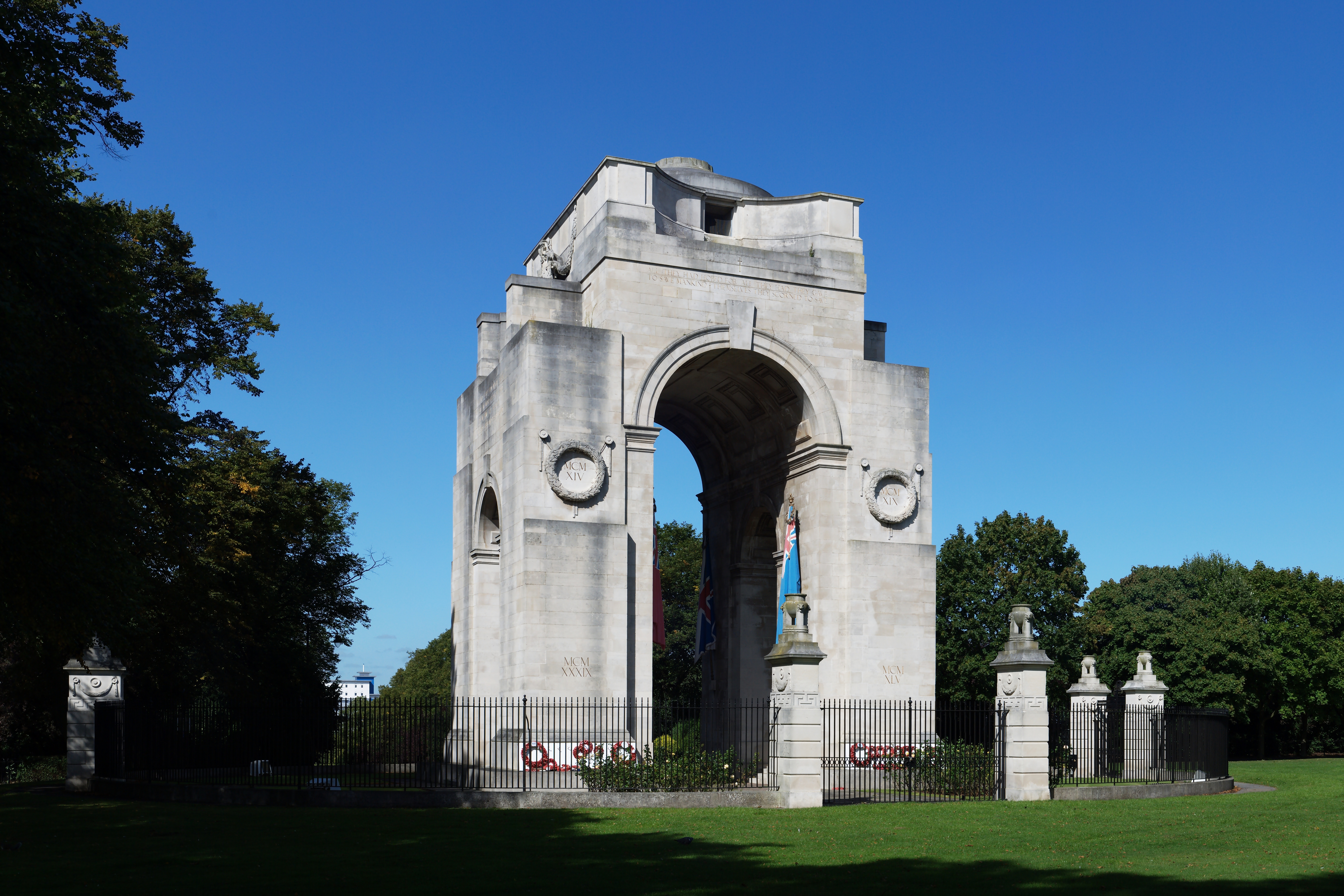 The War Memorial, Victoria Park, Leicester. The Memorial was designed by Edwin Lutyens and erected in 1923; it is the youngest Grade I listed building in Leicester.